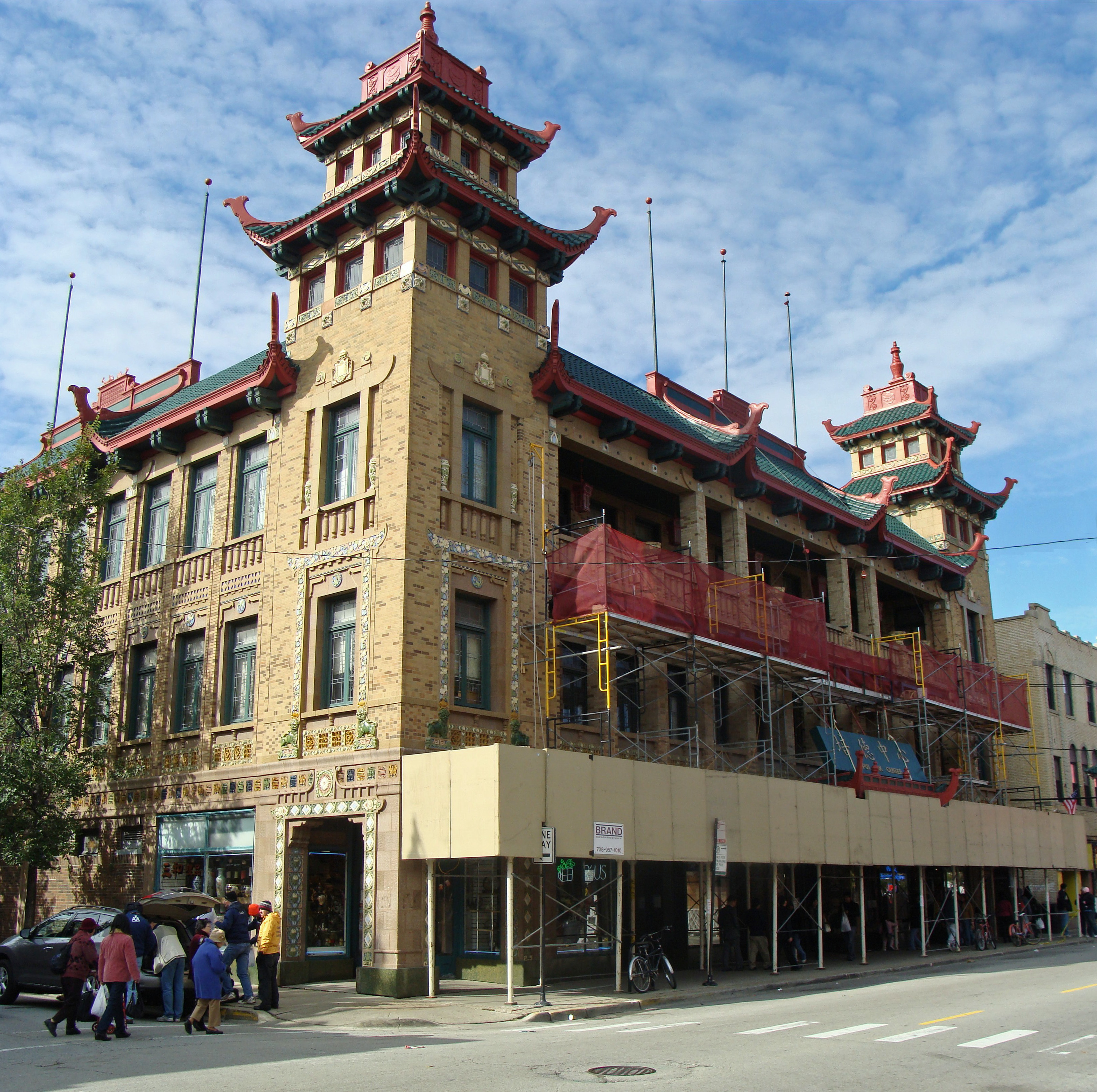 The west-side of the building with scaffolding